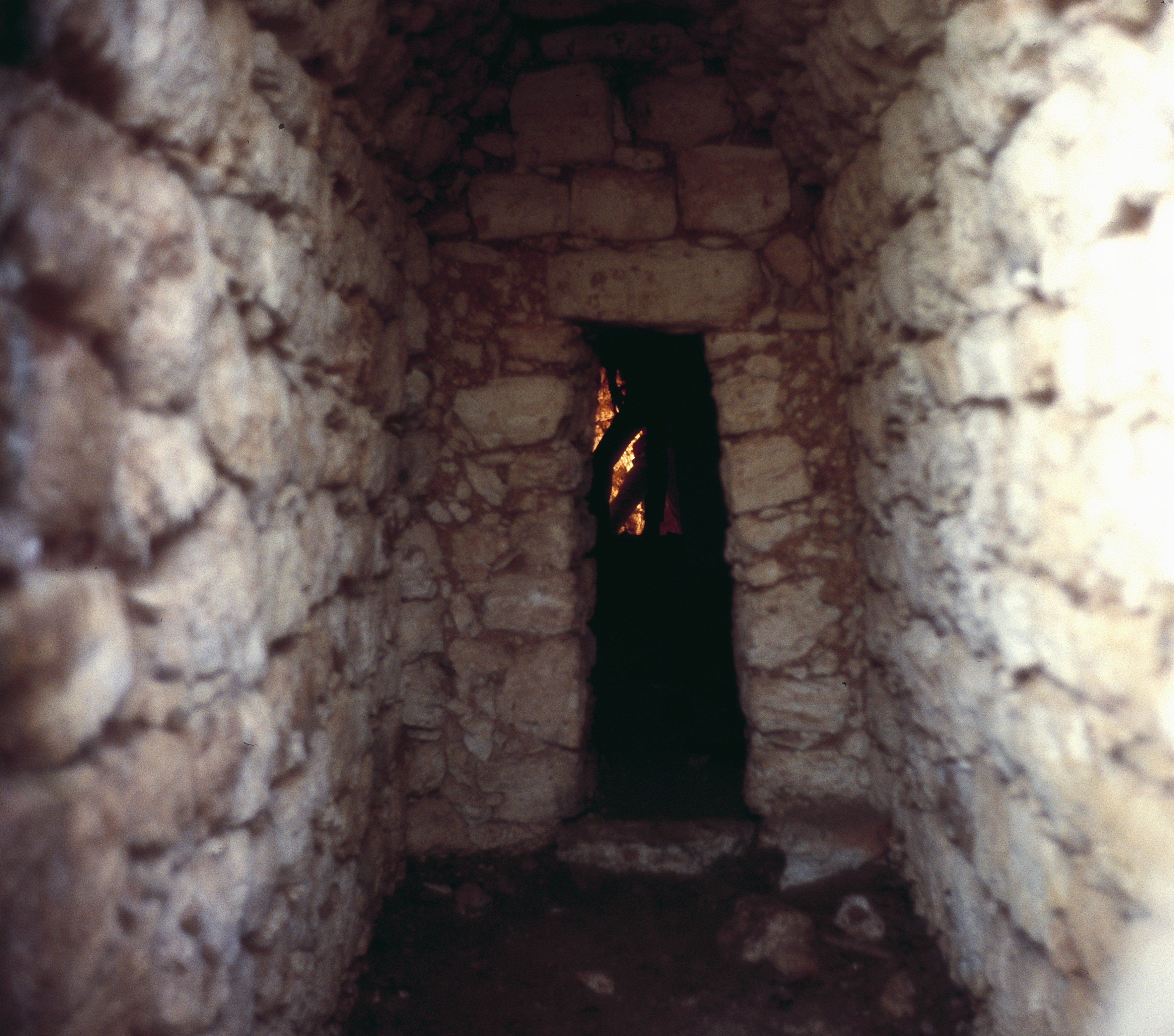 Huntichmul II, Campeche, Mexico: inner room of second level